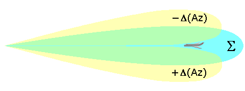 The elements in linear antenna array are divided into two halves. These two separate antennae arrays are placed symmetrically in the focal plane on each side of the axis of the radar antenna (this often called boresight axis). In transmission (Tx) mode, both antennae arrays will be fed in phase and the radiation pattern is represented by the ice blue area, which is called the Σ or Sum -diagram. In reception (Rx) mode an additional receiving way is possible. From the received signals of both separate antenna arrays, it is possible to calculate Σ (like the transmitted Sum-diagram) and the difference ΔAz, the so called Delta azimuth- diagram. The antenna pattern is given by the amber area on the same figure. Both signals are then compared as a reply processor function and their difference is used to estimate the azimuth of the target more exactly.